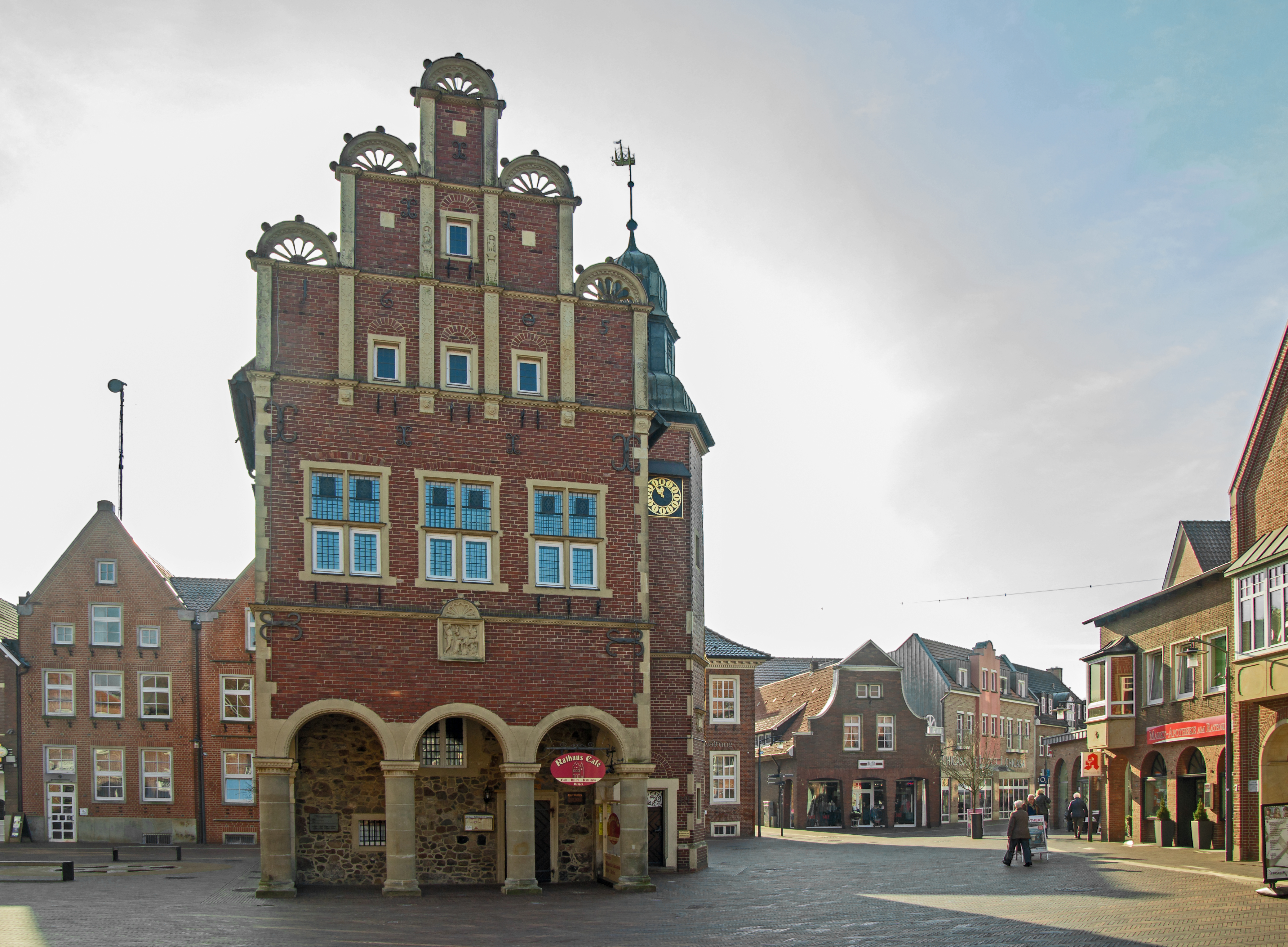 city hall of Meppen - Meppen, Lower Saxony, Germany